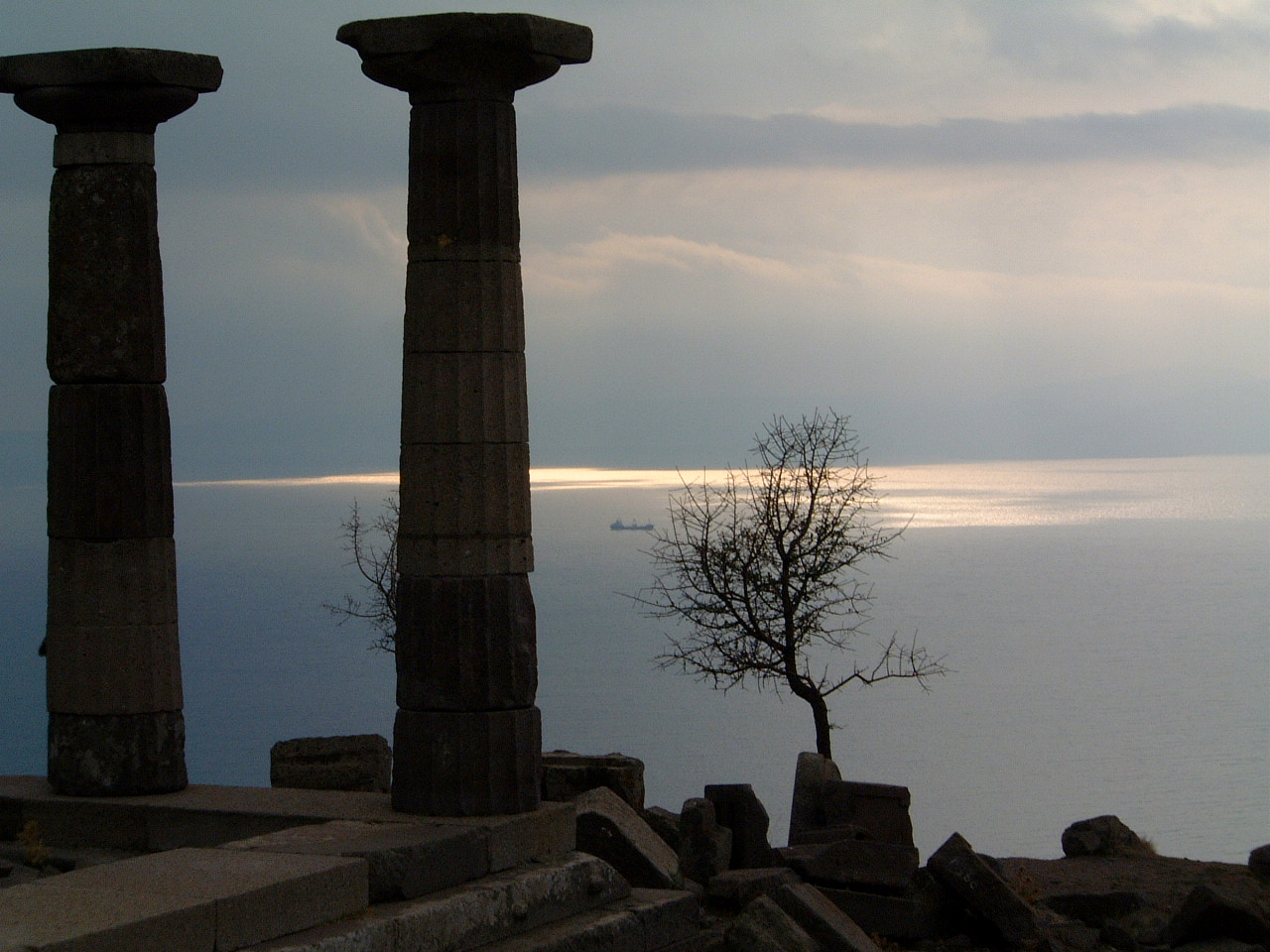 Athena temple at Assos, Turkey